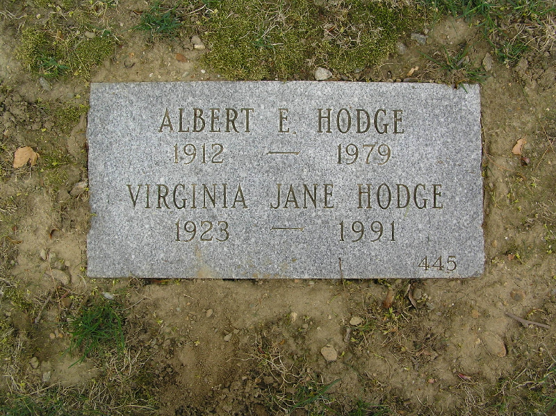 I took this photograph of the grave of Al Hodge in Kensico Cemetery on May 4, 2006.